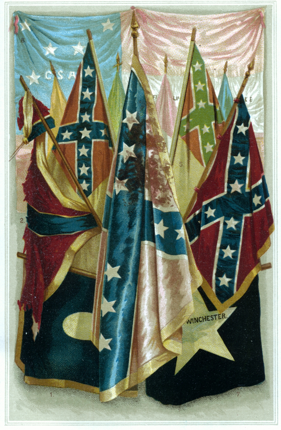 Scanned and archived at where it was marked as public domain from My Story Of The War: A Woman’s Narrative of Four Years Personal Experience as a Nurse in the Union Army by Mary Livermore. Flags included on plate: 1. From Bragg's Army 2. Forty second Miss. Reg't. 3. Twelfth Miss. Cavalry 4. Ninth Texas Reg't. 5. Austin's Battery 6. So. Carolina Flag 7. Texas Black Flag 8. Virginia Flag